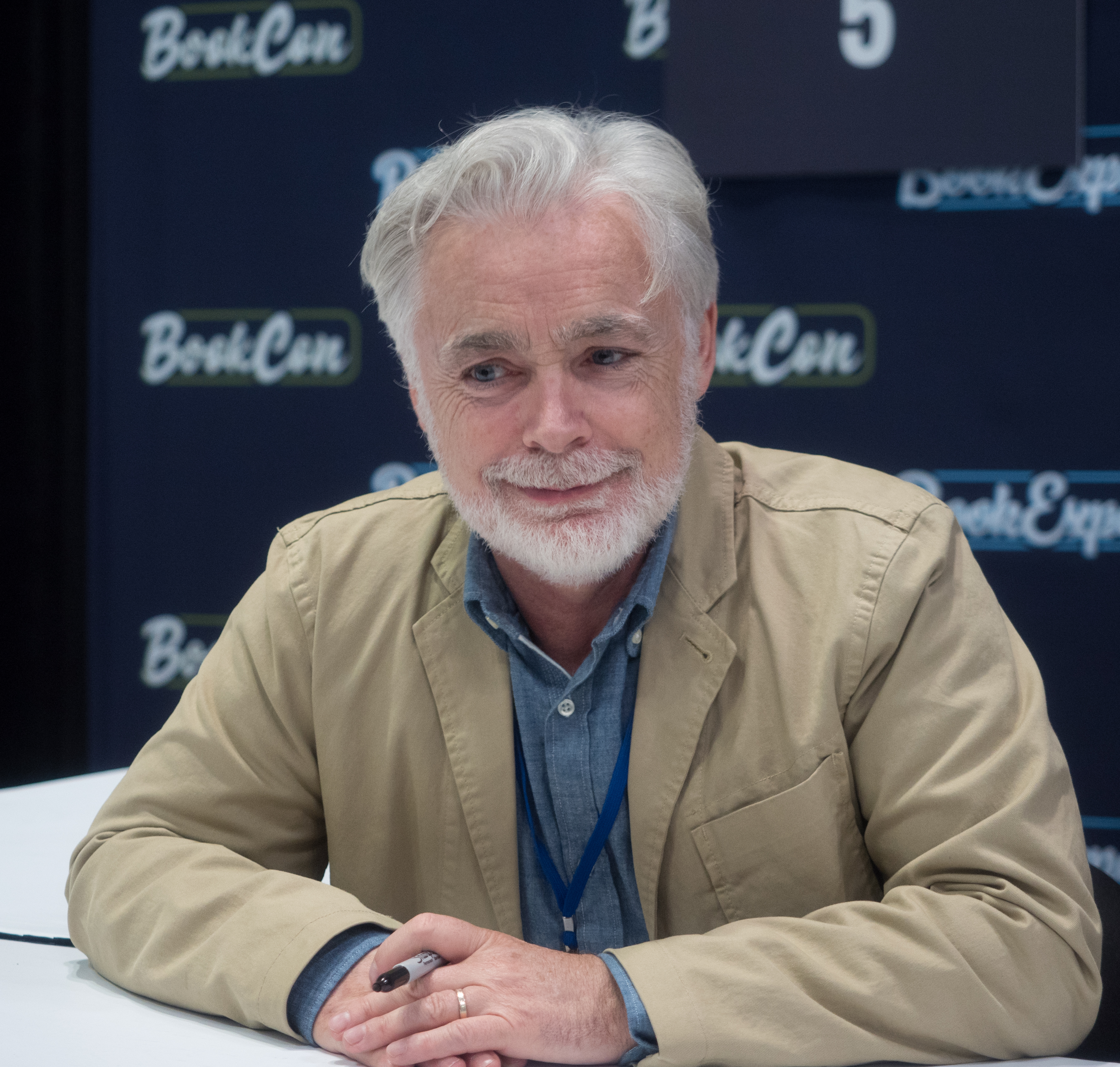 Eoin Colfer at BookExpo at the Javits Center in New York City, May 2019.